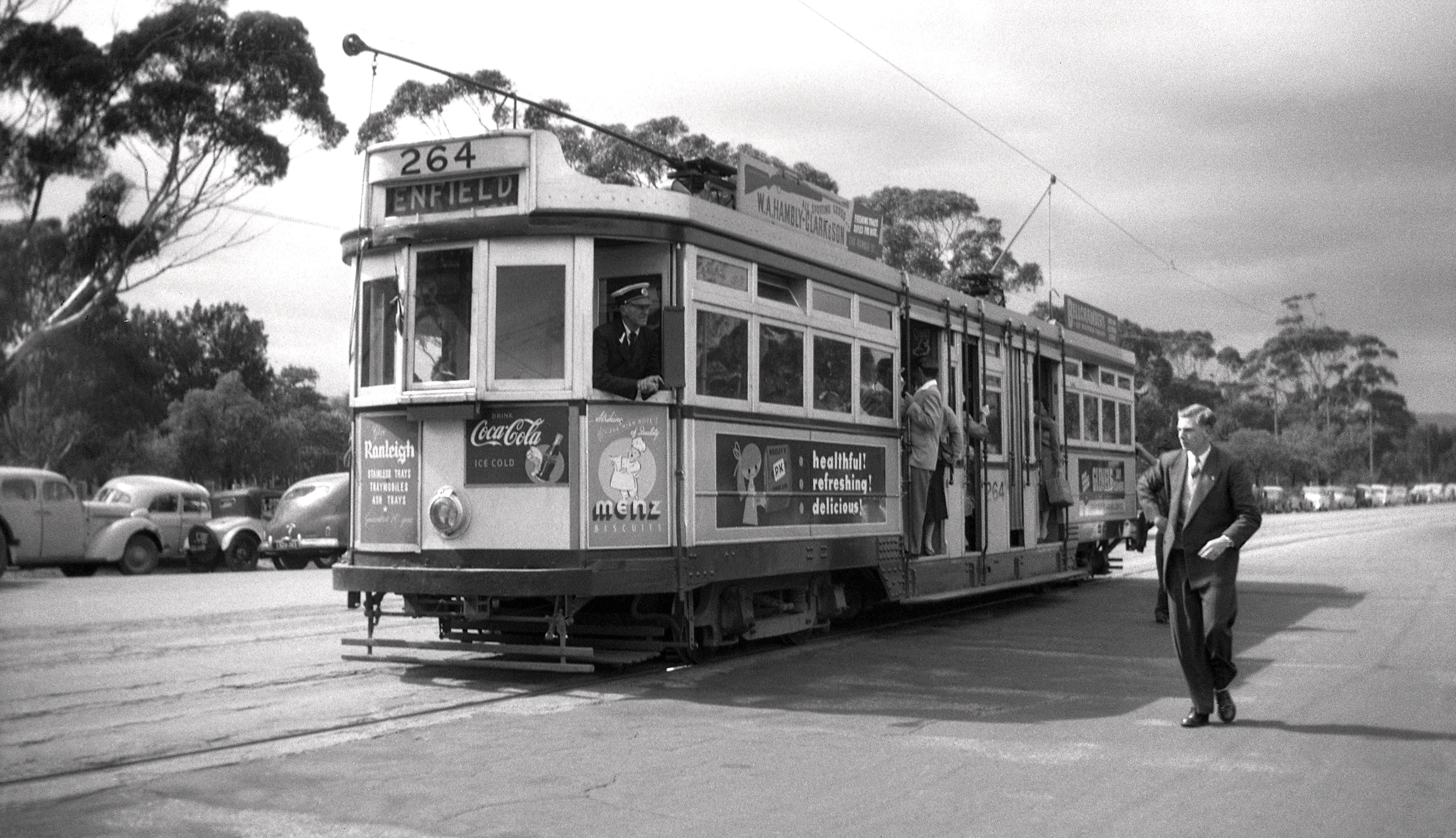 A 1925-vintage Municipal Tramways Trust Type F1 tram no. 264 in silver and carnation red livery headed for Enfield, north of the city of Adelaide. It is waiting at Peacock Road, just before the intersection with South Terrace on the morning of 9 November 1957. Passengers appear to be approaching the crush load of 170 but the driver, possibly waiting for the nearby Glenelg line to clear, leans out of his cab, as nonchalant as the alighted passenger walking along the road.